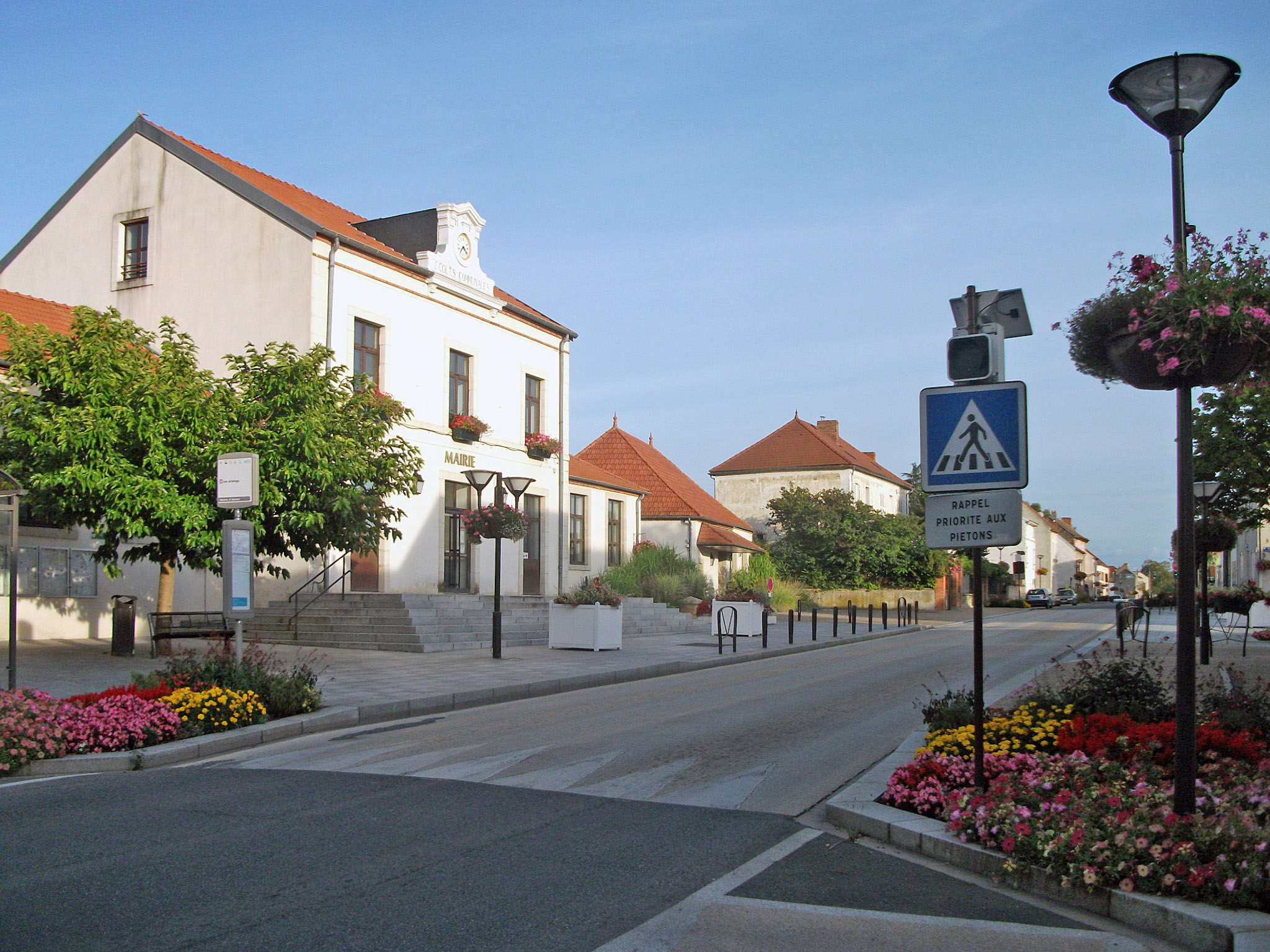 D 906 near Thiers in Abrest, Allier, Auvergne, France. On the left-hand corner, the town hall and the bus stop "Mairie d'Abrest" (line D of the network "MobiVie").